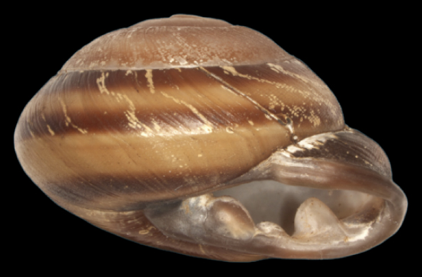 Photo of an apertural view of the shell of Pleurodonte josephinae. The height of the shell is 12.5 mm.